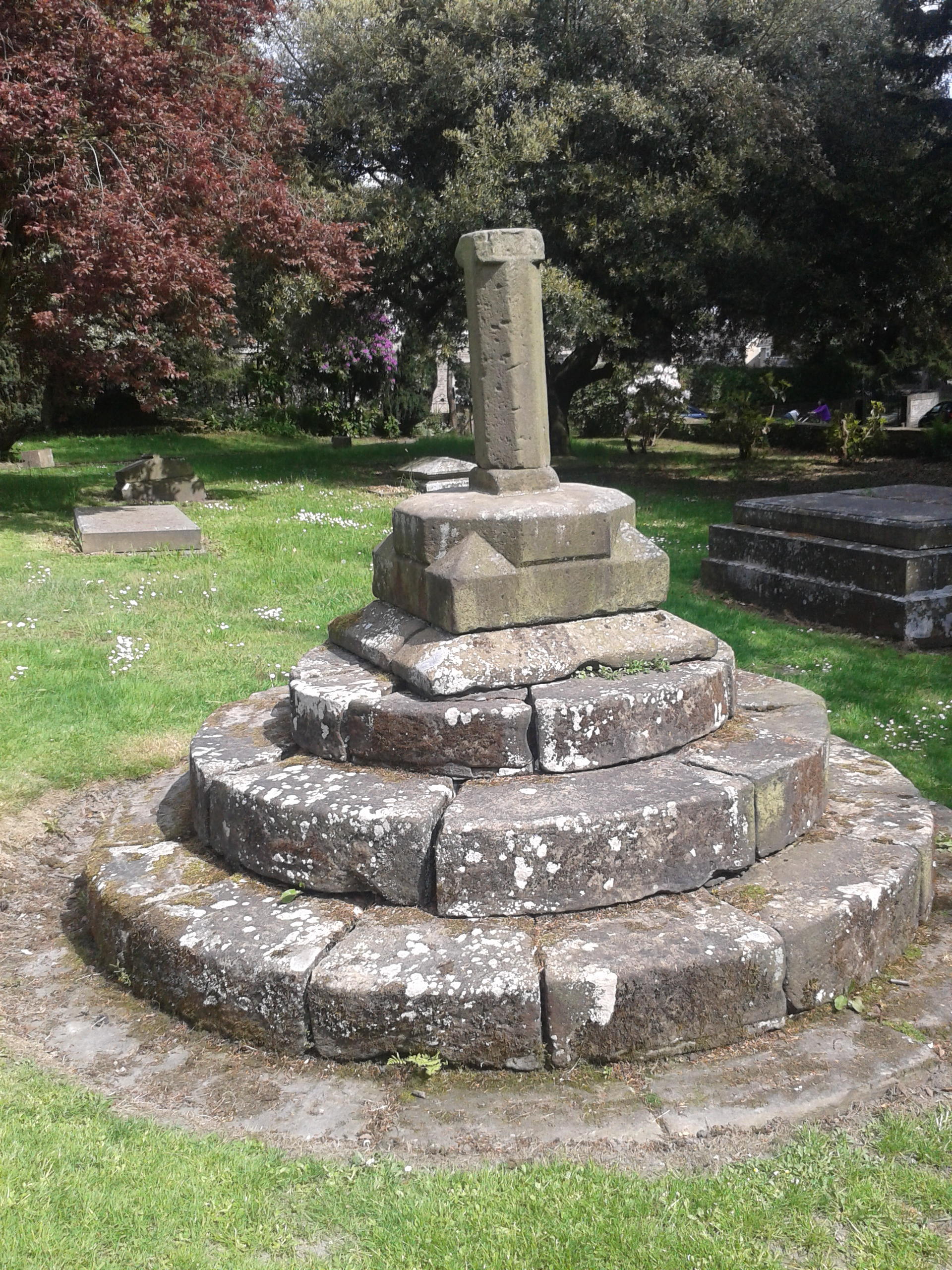 Base and shaft of stone cross in St James' parish churchyard, Norton, Sheffield, South Yorkshire